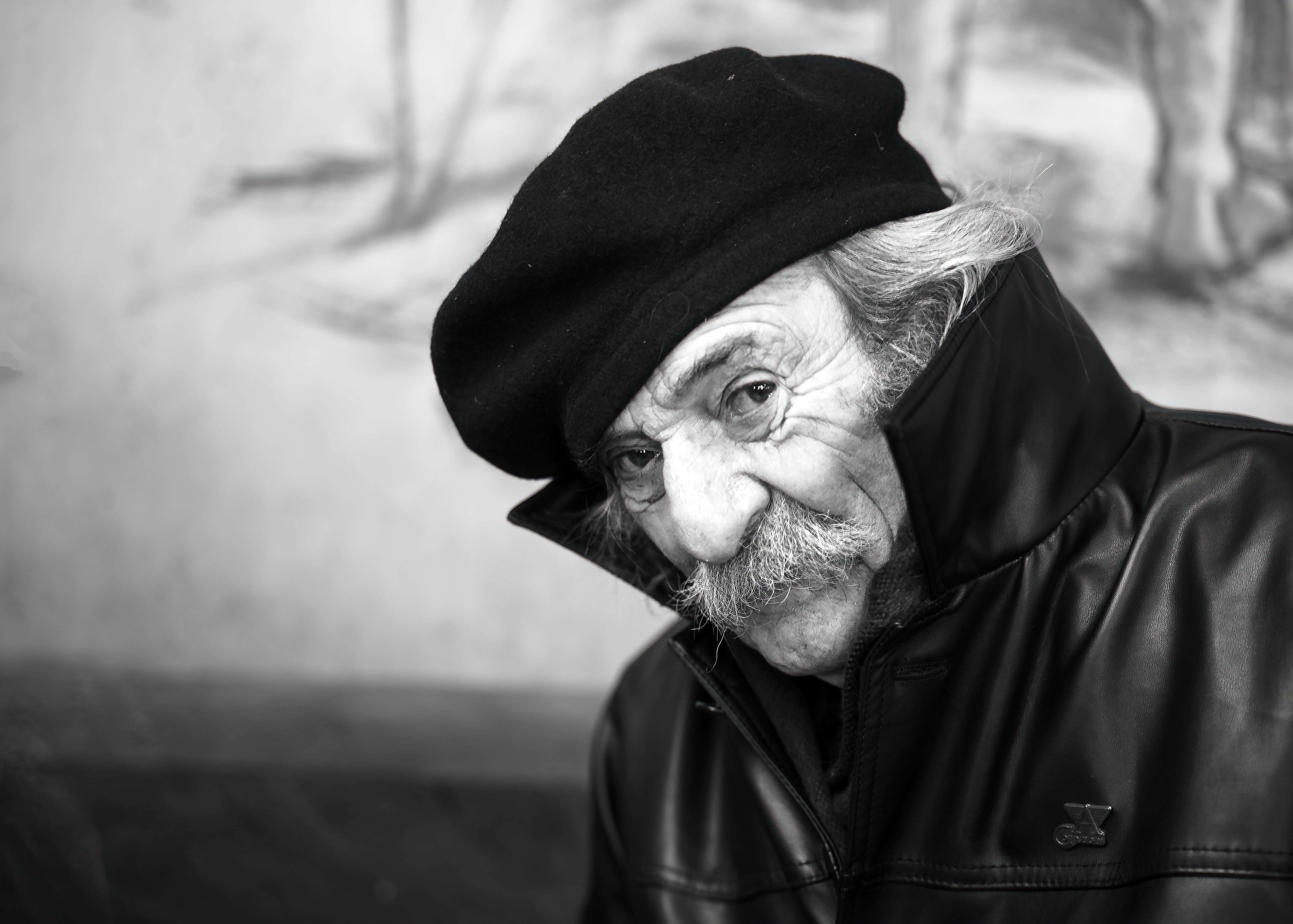 Poet Jack Hirschman at Caffe Trieste by Christopher Michel